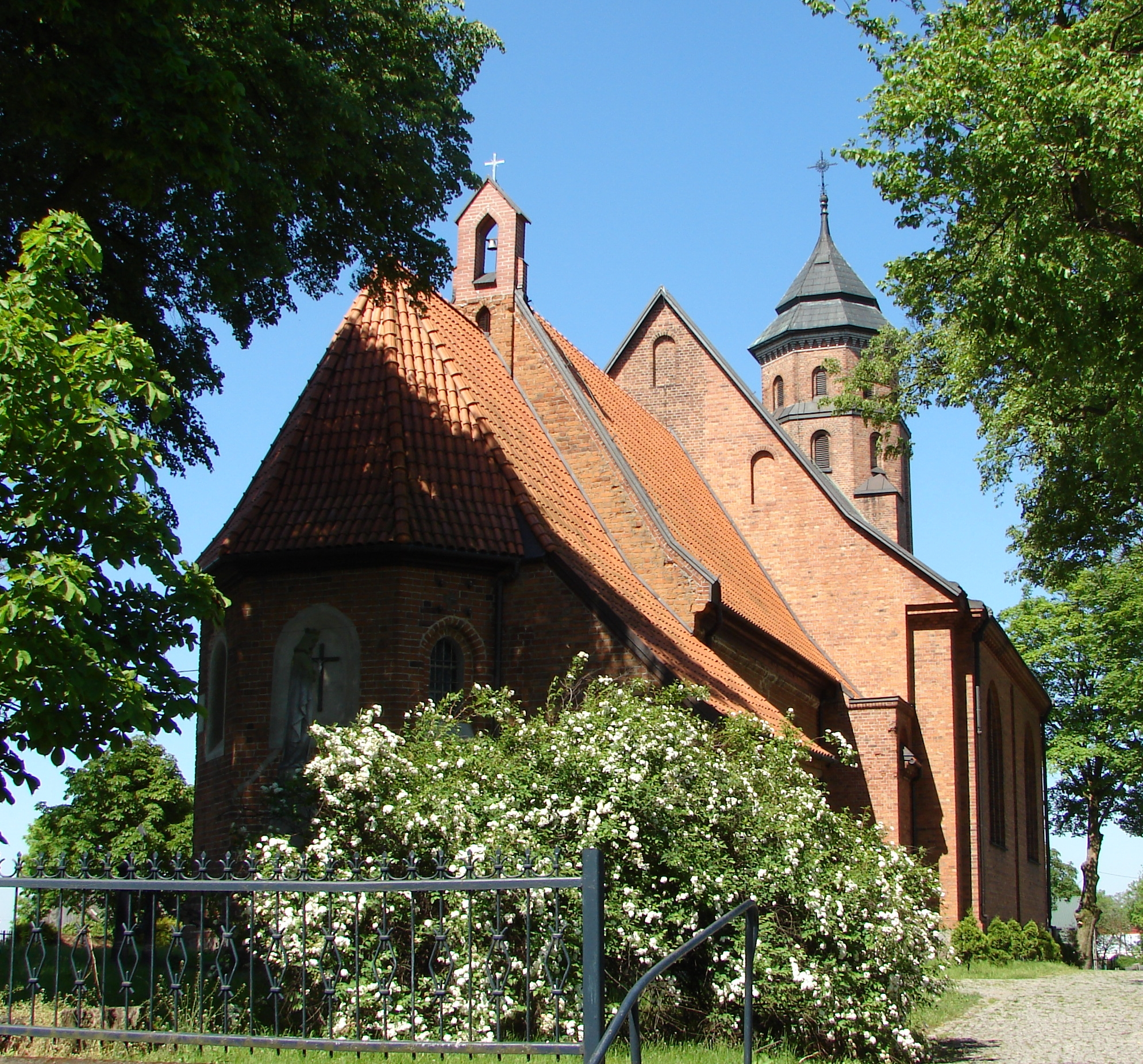 Bądkowo, Kuyavian-Pomeranian Voivodeship. Church of Saint Metthew, built about 1312.